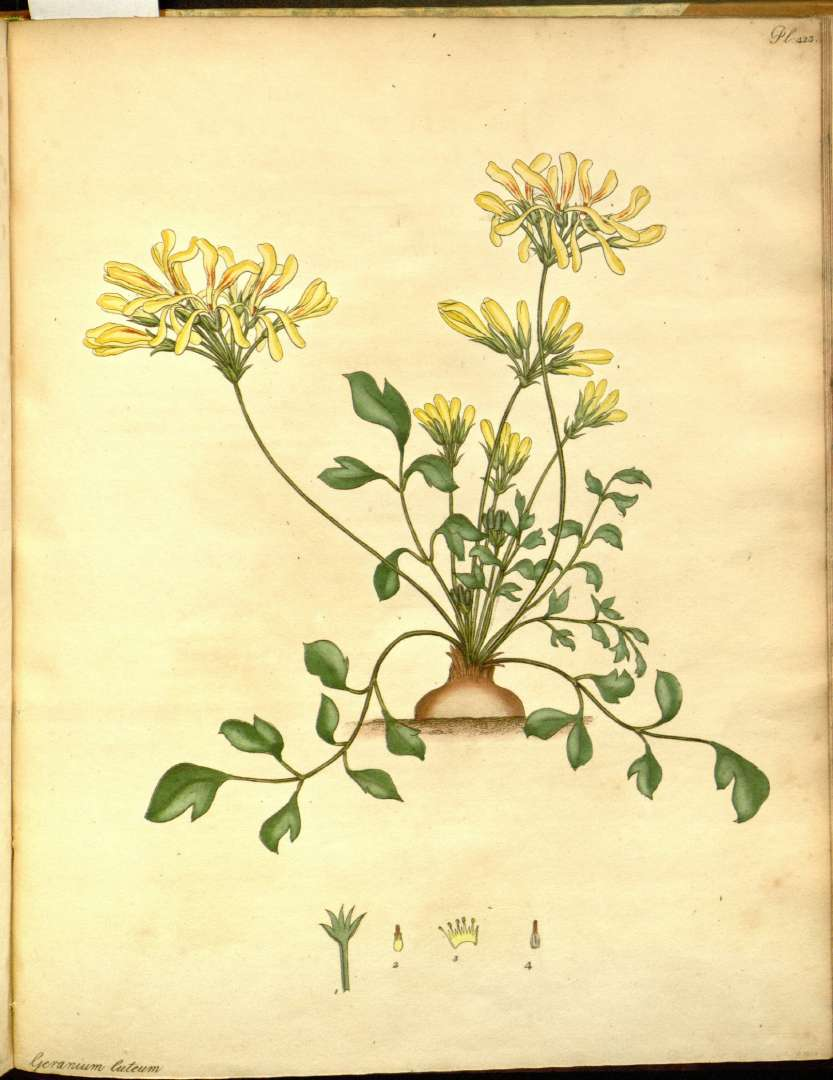 Pelargonium luteum